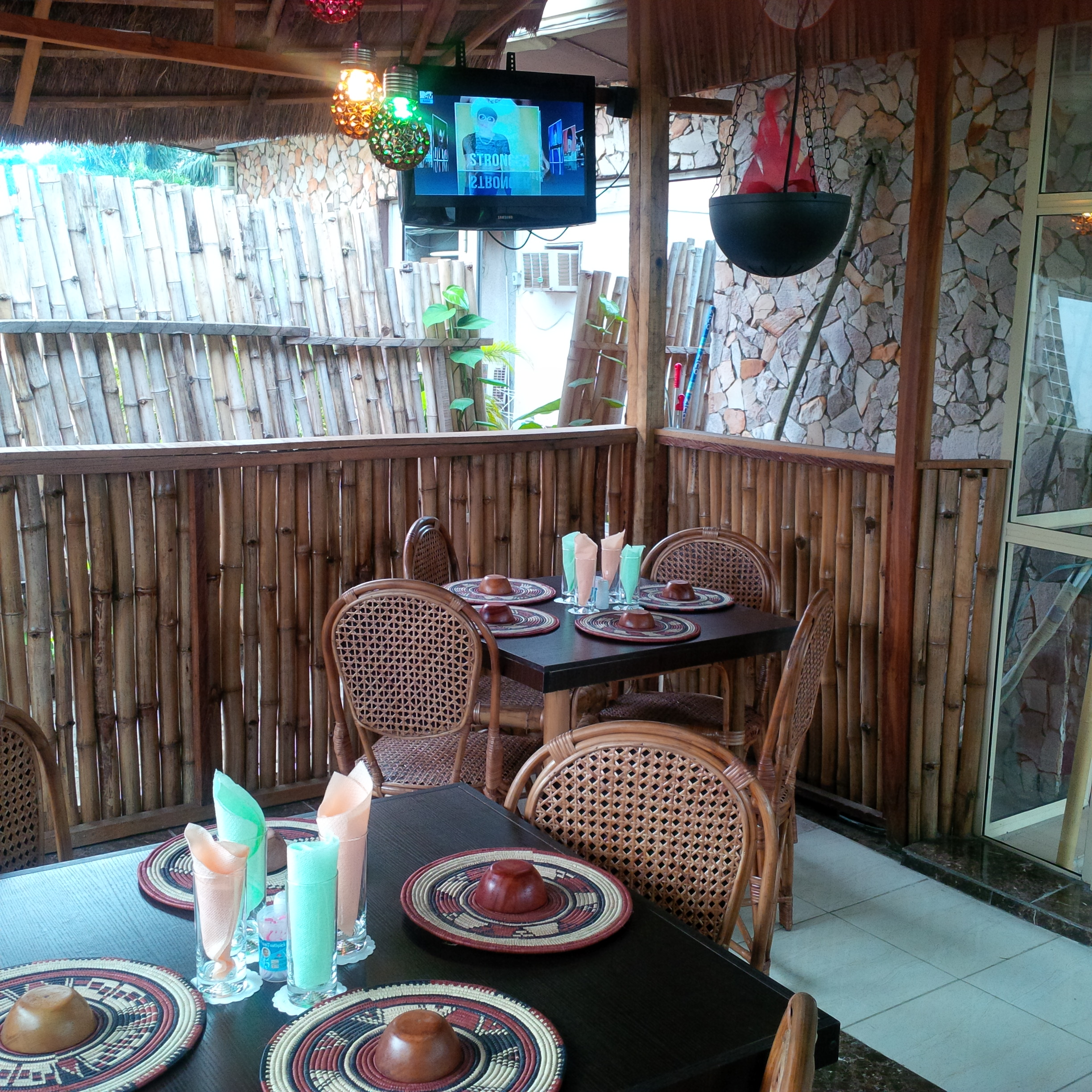 This is an image of food from Nigeria